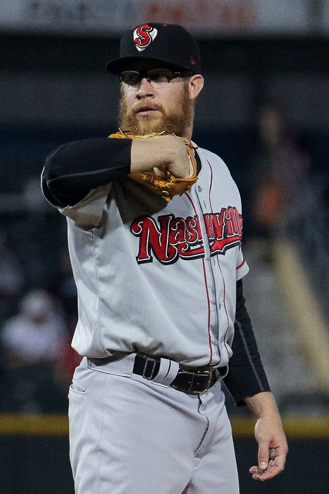 Sean Doolittle pitched one inning of relief in a combined no-hitter for the Nashville Sounds on June 7, 2017; by Minda Haas Kuhlmann USAGE INSTRUCTIONS: You are welcome to share or publish to your own site or social media account, but you MUST credit me, Minda Haas Kuhlmann, or by my Twitter handle (@minda33) or Instagram (minda.haas).